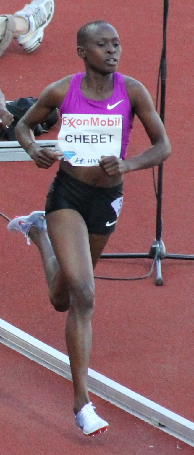 Chebet, 800 meter run at Bislett Games 2010 - cropped